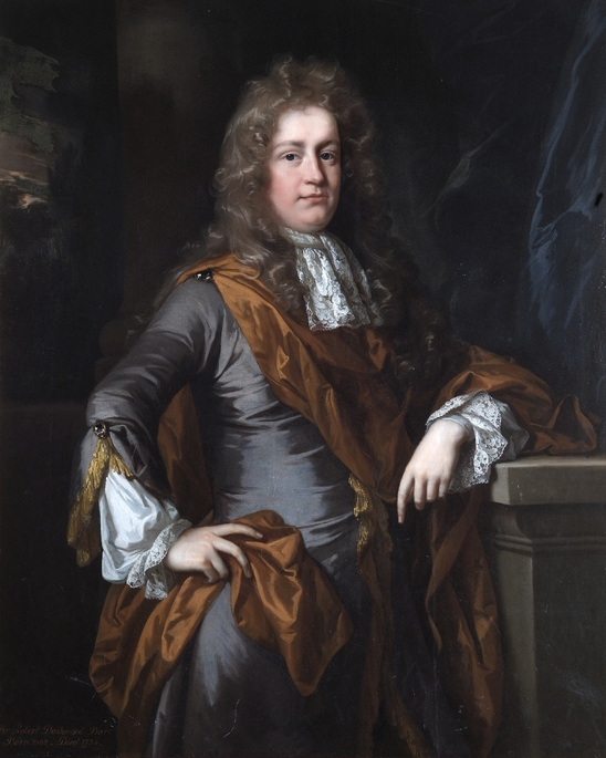 Portrait of Sir Robert Dashwood, 1st Baronet (1662–1734), English politician.